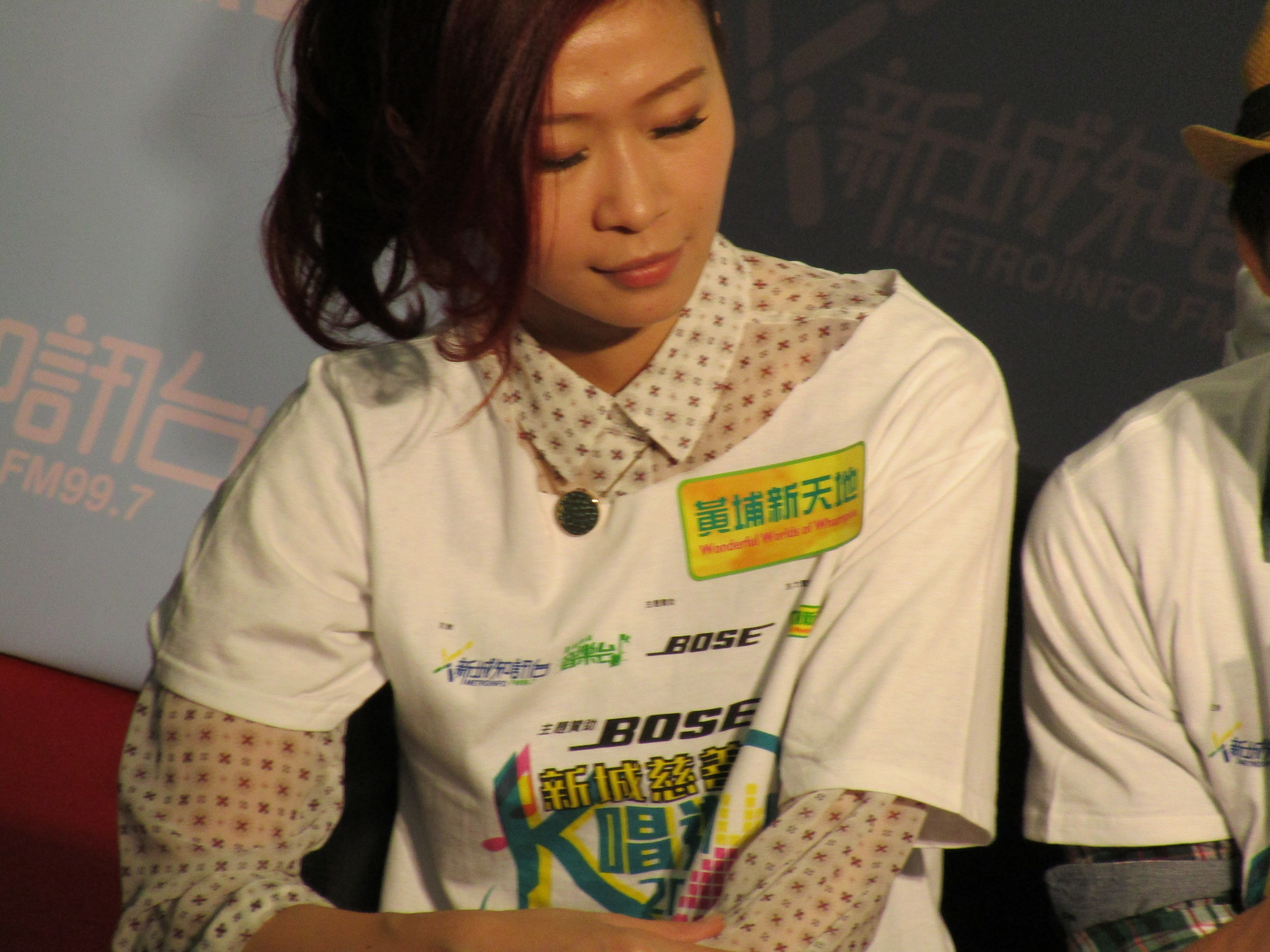 Khloe Chu is singing at Wonderful Worlds of Whampoa, Hung Hom